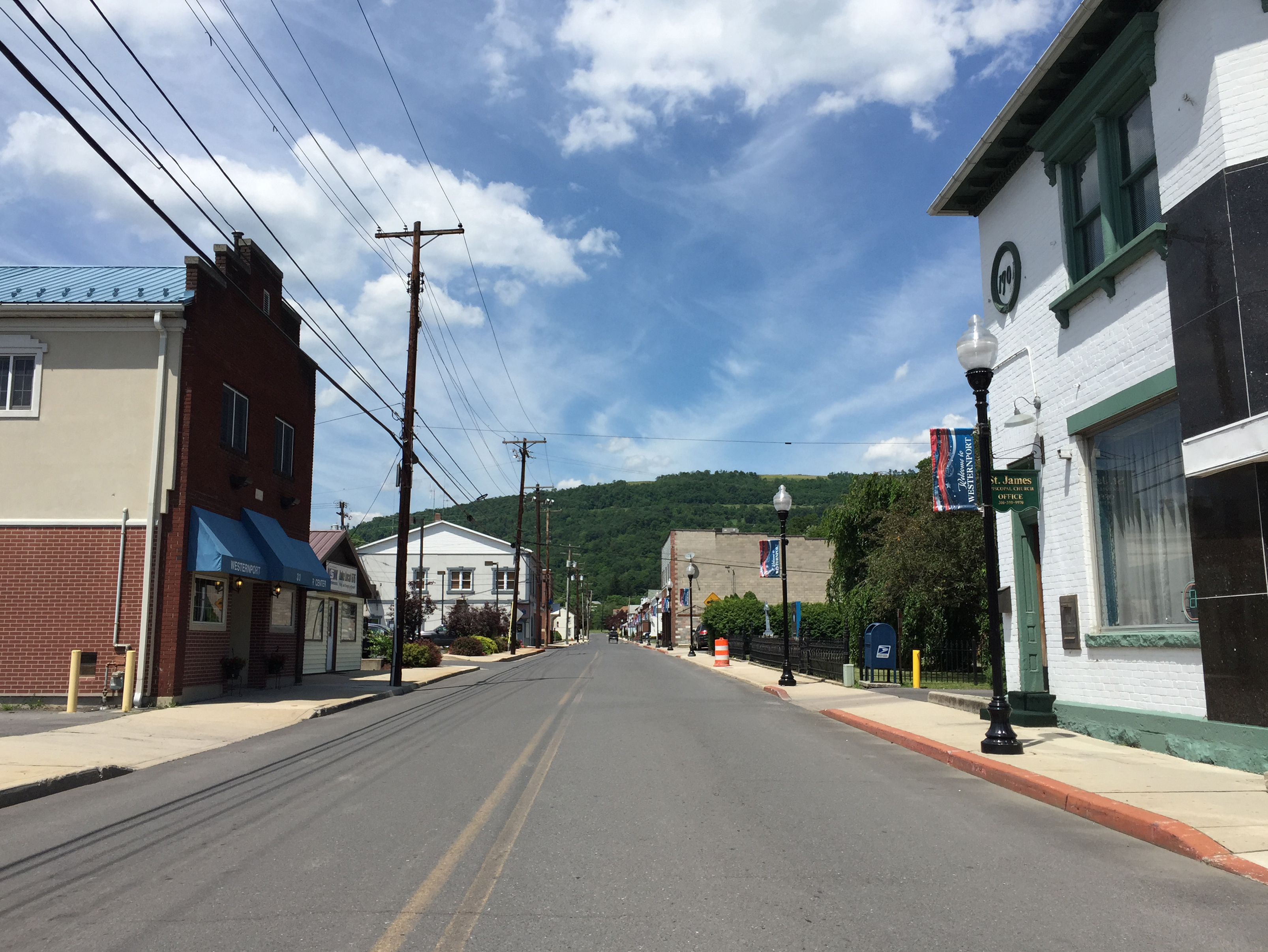 View north along Maryland State Route 937 (Main Street) just north of Maryland State Route 135 (Church Street) in Westernport, Allegany County, Maryland